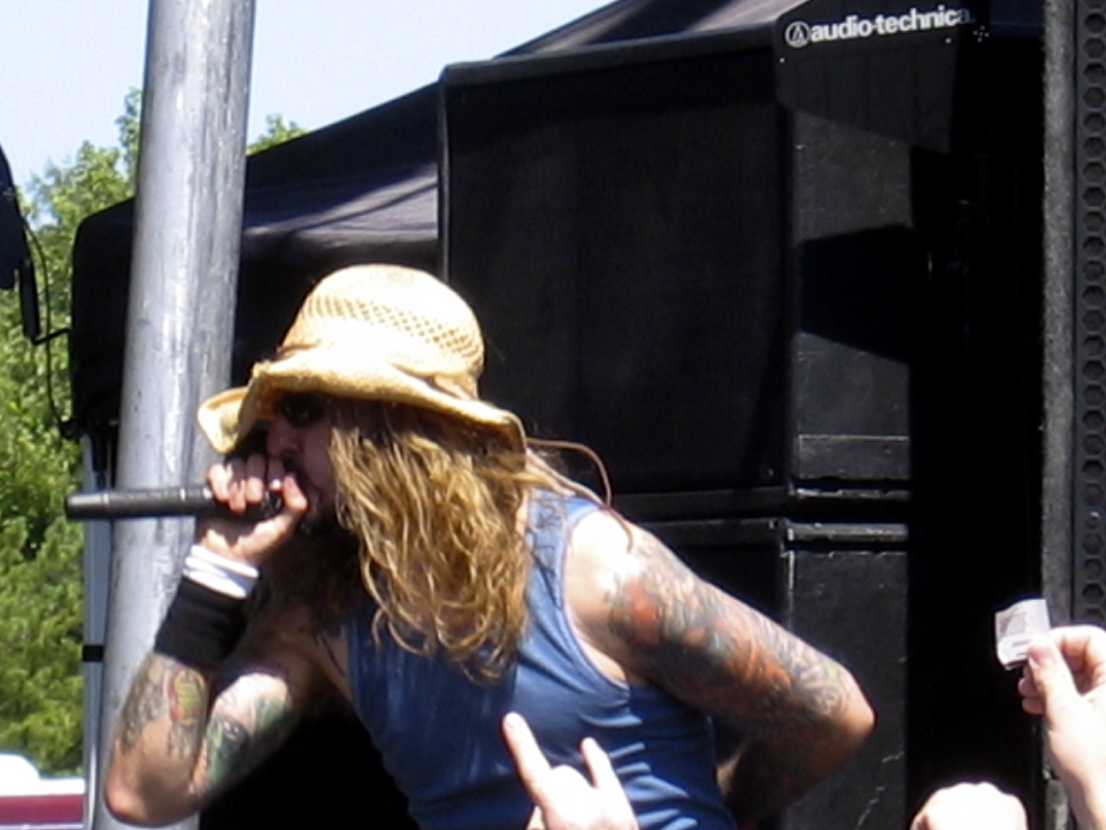 Rob Zombie live